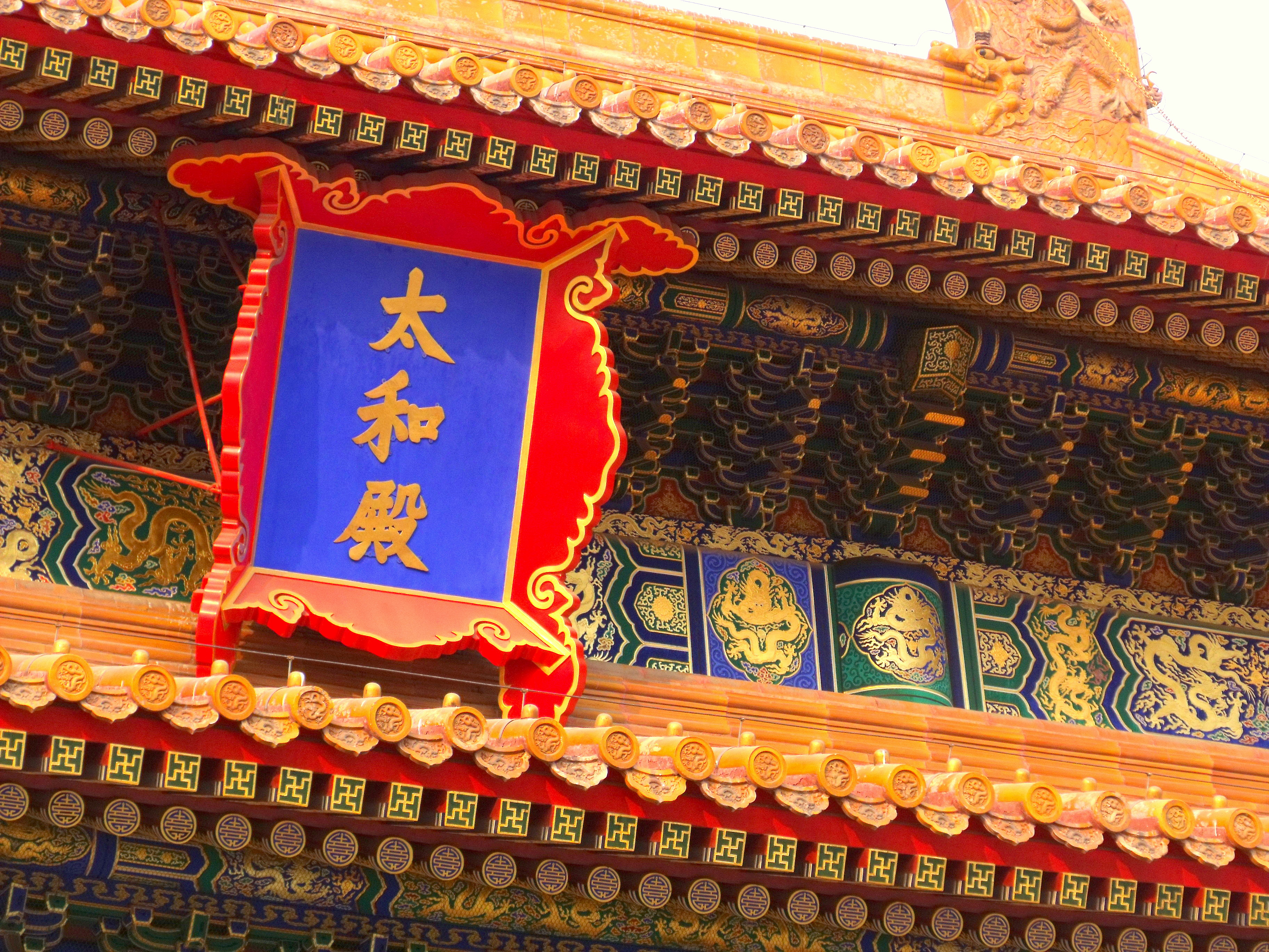 The three Chinese characters shown on the photo is "Hall of Supreme Harmony"(Tai He Dian)[太和殿]。